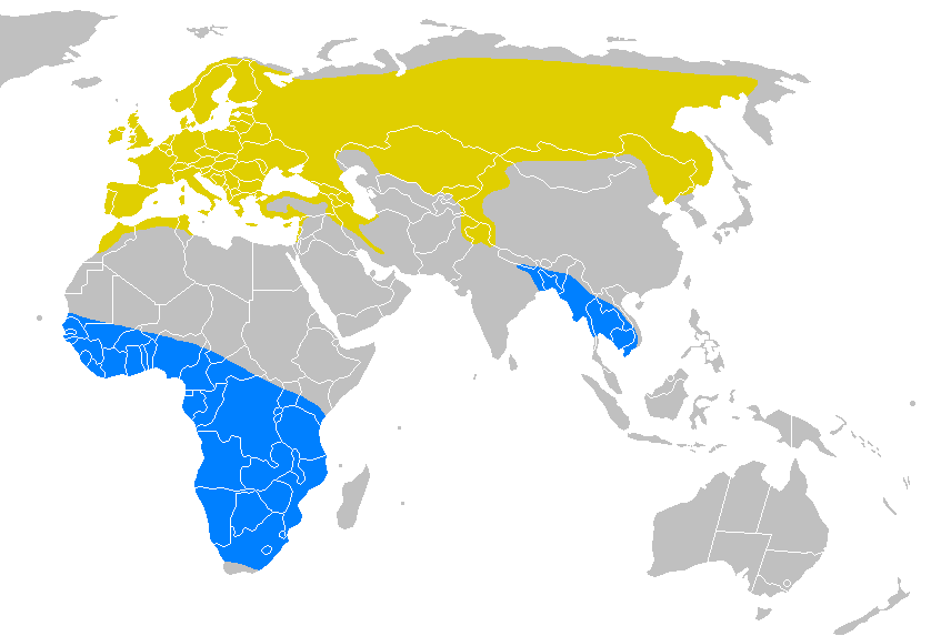 Delichon urbicum map. Yellow: breeding range Blue: non-breeding range